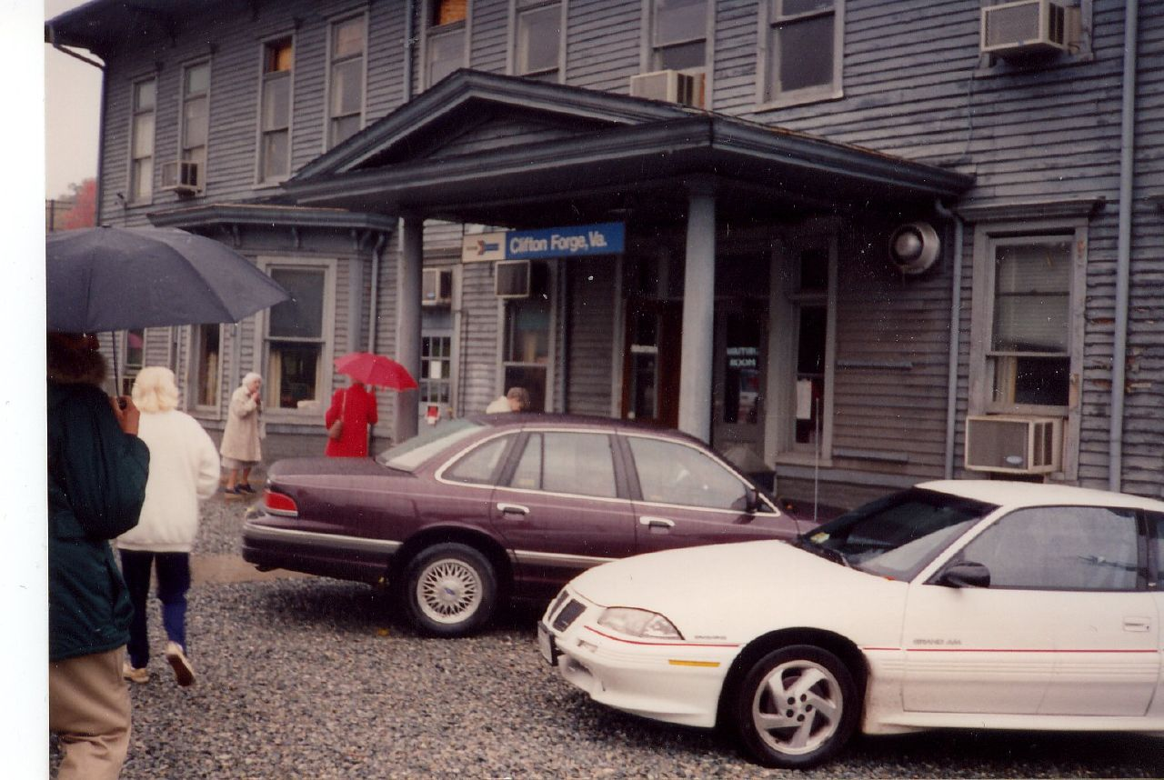 The Amtrak station in Clifton Forge, Virginia in November 2005